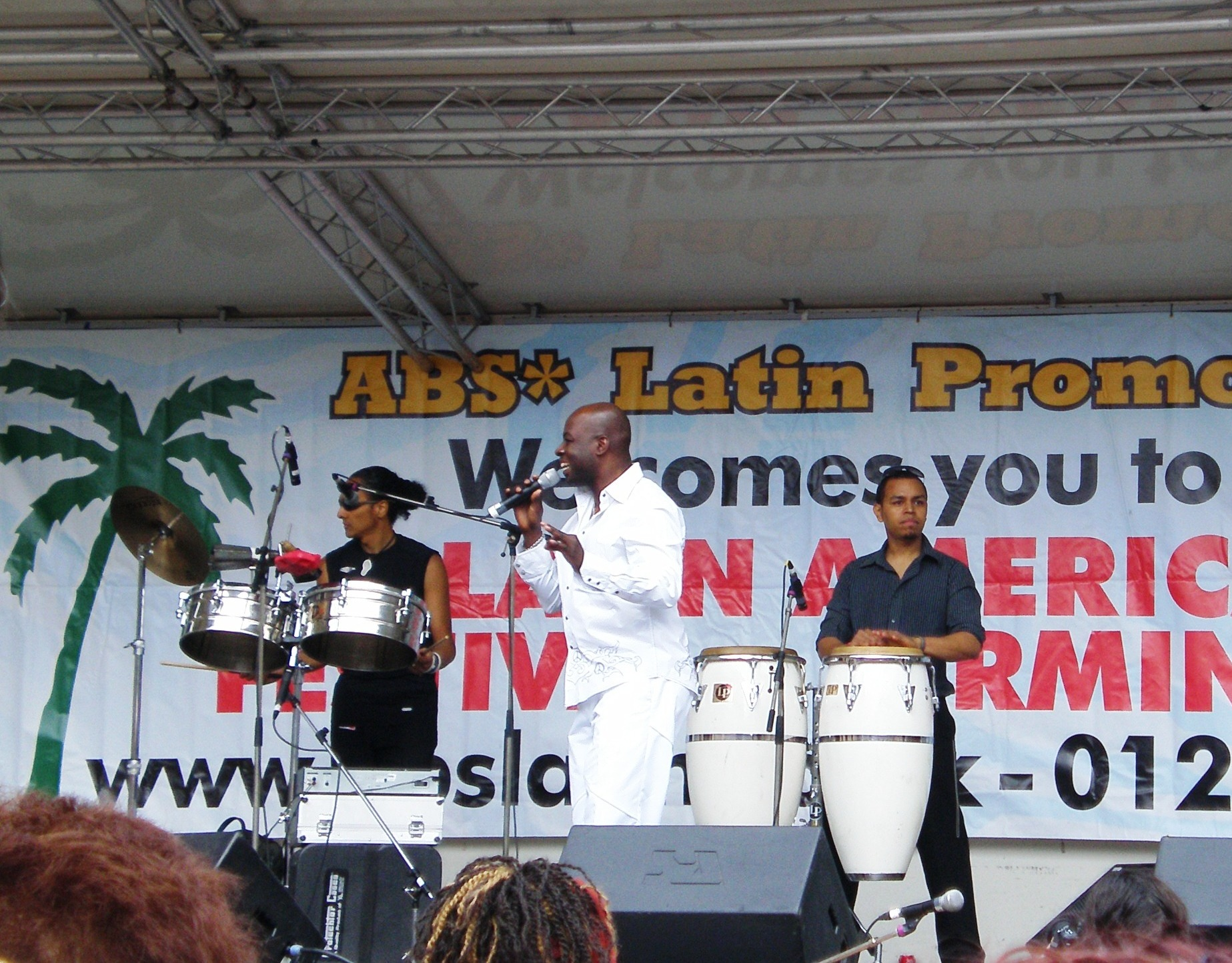 Luis Lema Salsa Band in Birmingham Latina music festival, 2008